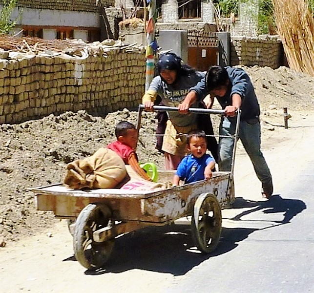 Kids in cart. Leh, Ladakh, India.